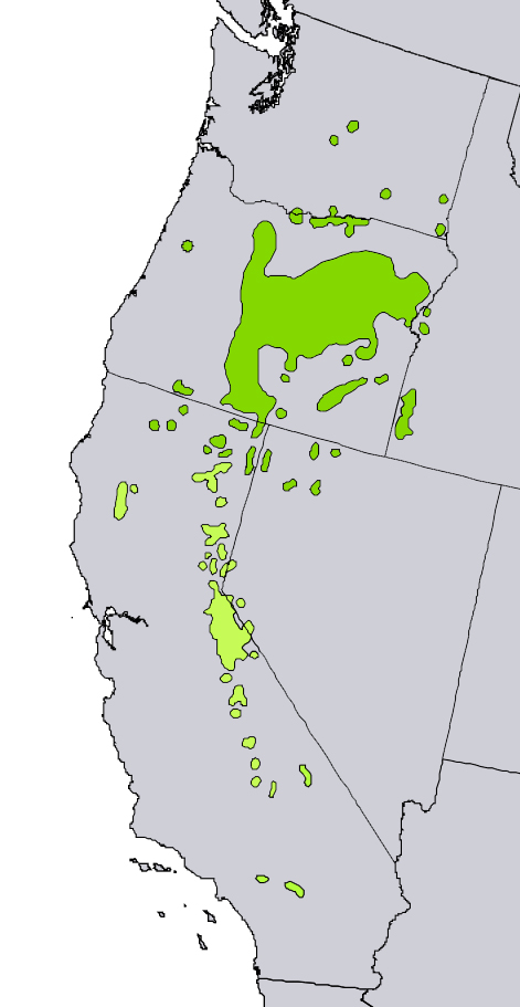 Range map of Juniperus occidentalis Dark green: Juniperus occidentalis subsp. occidentalis Light green: Juniperus occidentalis subsp. australis